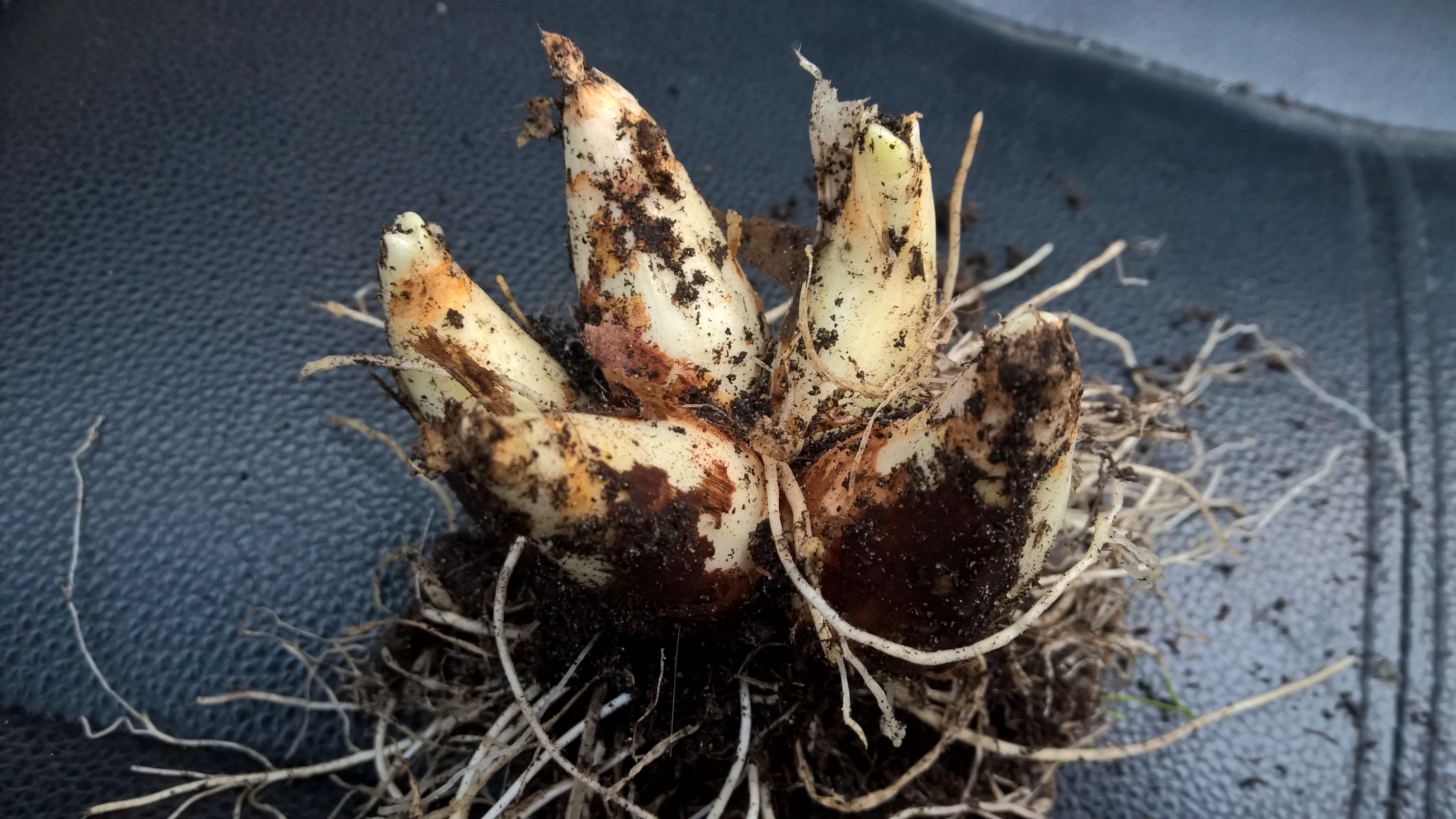 lop-sided onion